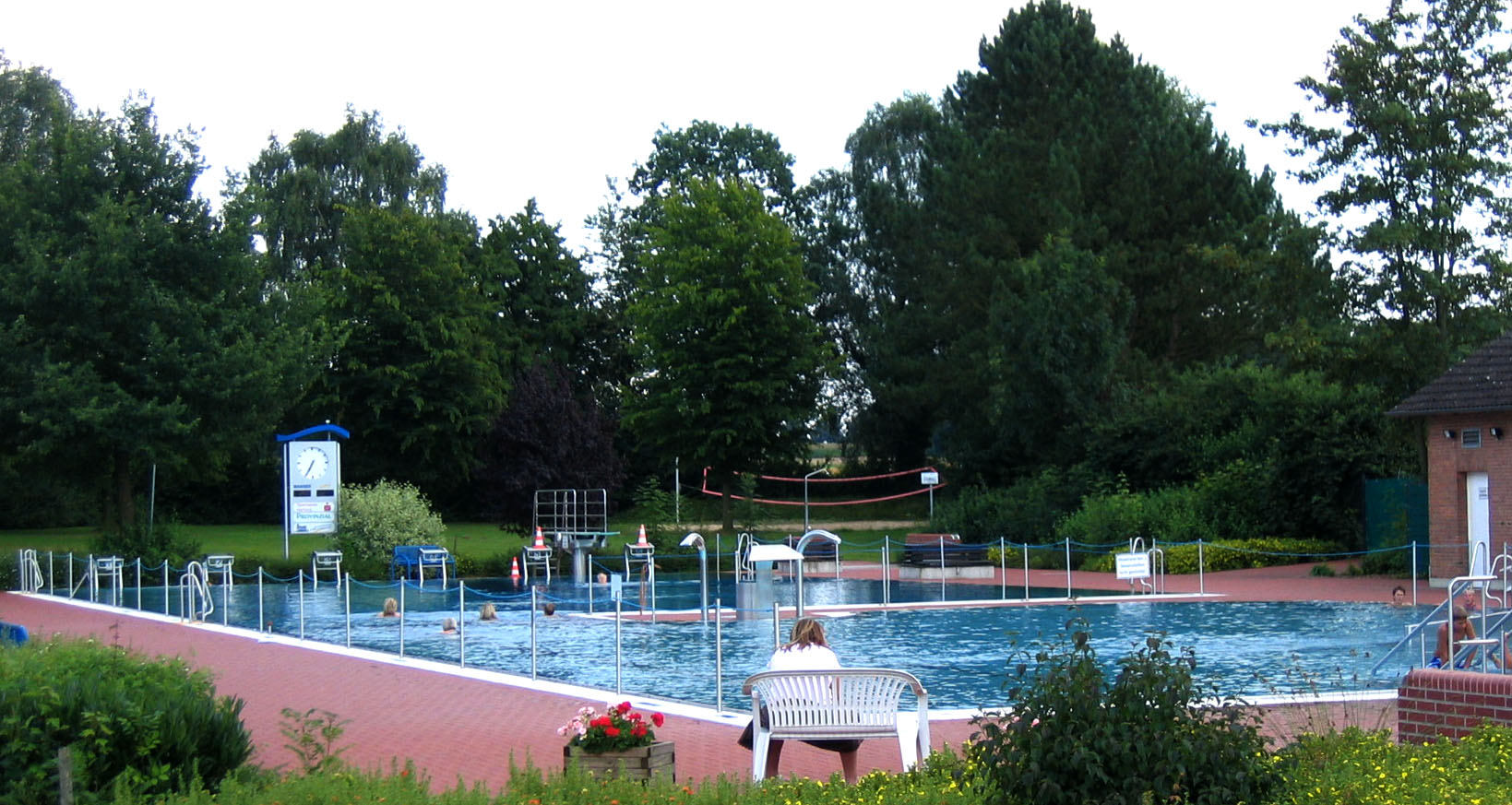 Public swimming pool in the town of Rödinghausen-Westkilver, Germany. South Side